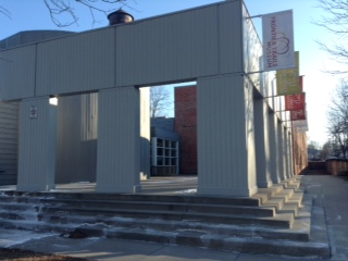 Photo of The National Frontier Trails Museum in Independence Missouri.